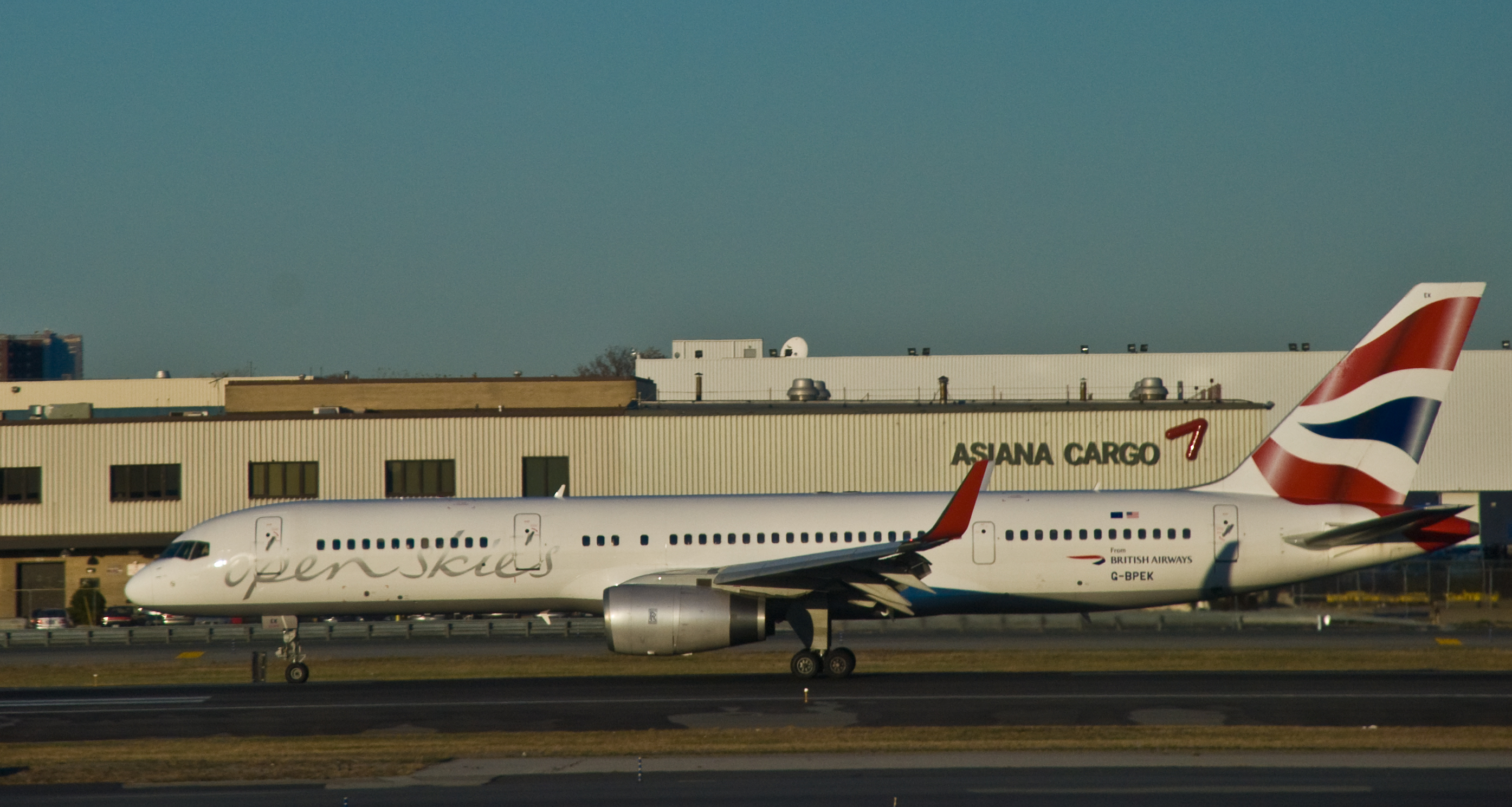 Image of OpenSkies 757